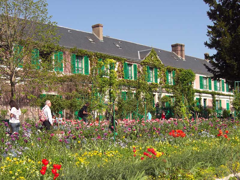 Claude Monet's home in the famous Giverny gardens, in Normandy.